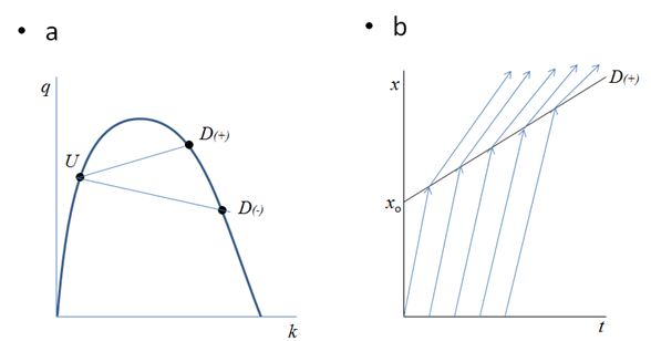 Riemann problem Case I